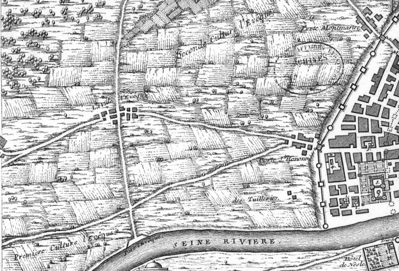 The Ville-l'Évêque (=bishop town) on a map of Paris of 1383. We see grounds named Première culture l'évêque (=first bishop cultivation) and Seconde culture l'évêque (=second bishop cultivation). There is already a Port l'Évêque (=bishop harbour)